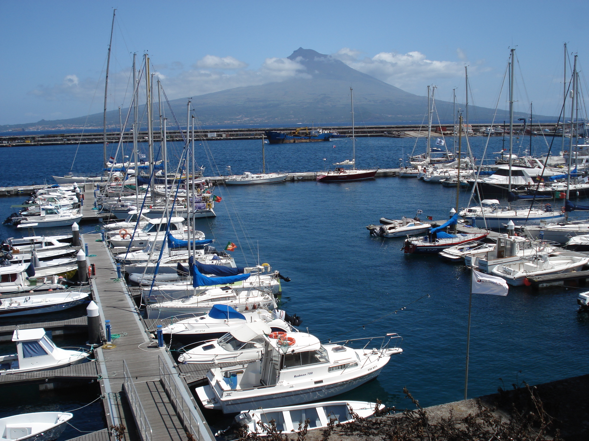 A view of Pico from the Marina of Horta, civil parish of Angústias, municipality of Horta (Azores), Portugal